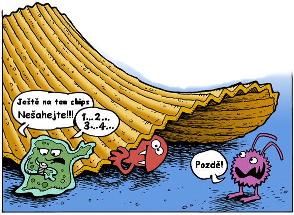 Ilustration for Five-second rule with Czech captions